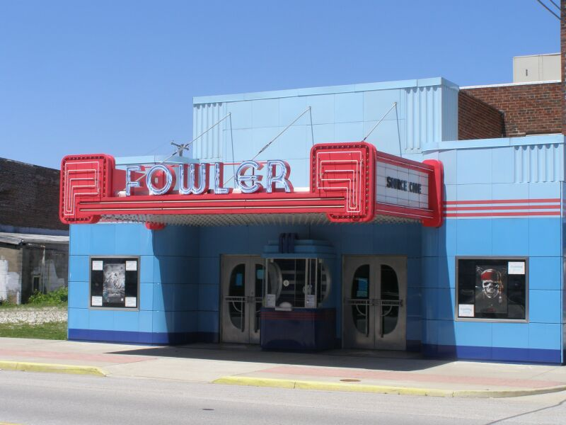 Fowler Theater, Fowler, Benton County, Indiana. Restored to its historic appearance. Listed on the National Register of Historic Places.